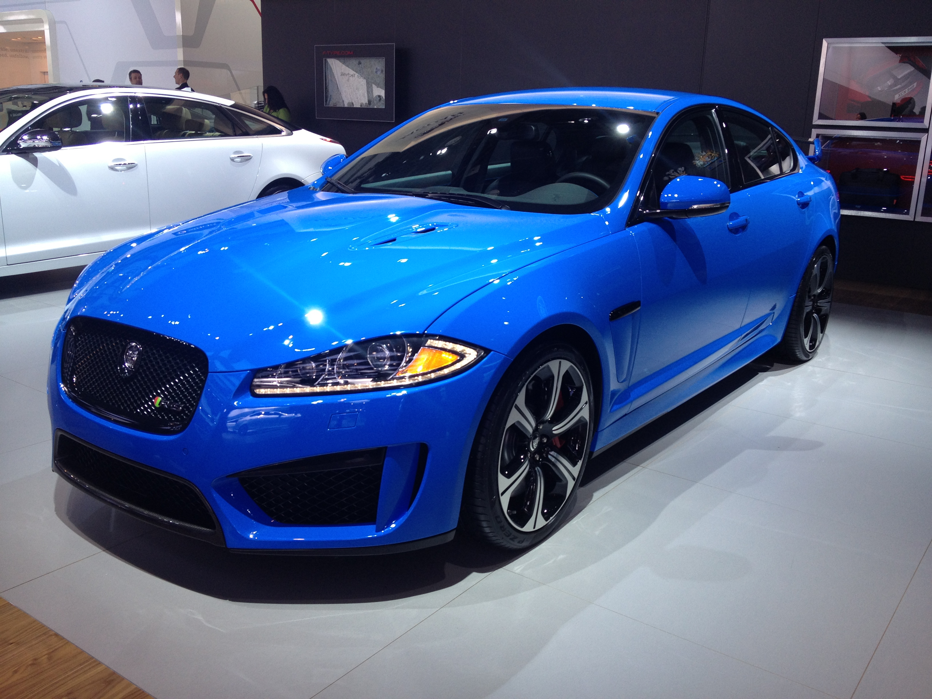 2013 North American International Auto Show Detroit, Michigan